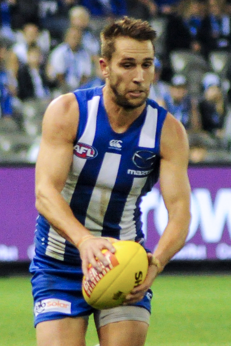 Jamie Macmillan during the AFL round five match between North Melbourne and Hawthorn on Sunday, 22 April 2018 at Etihad Stadium in Melbourne, Victoria.